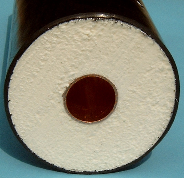 brand-new flexible bonded system pipe with metal service pipe made of copper, thermal insulation made of polyurethane foam, casing pipe made of polyethylene; dimension 28/90